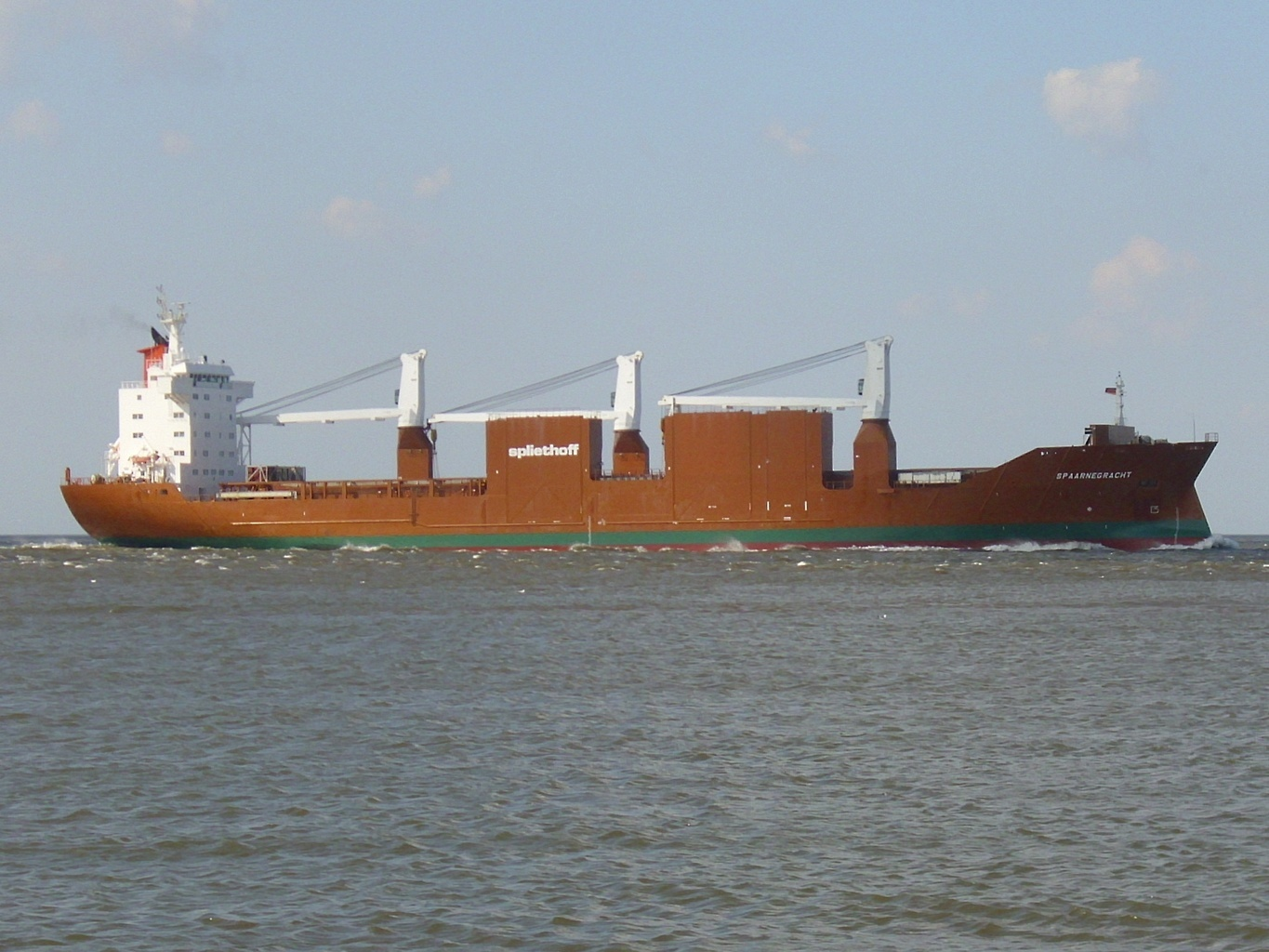 The general cargo ship Spaarnegracht inbound on the Elbe river between Cuxhaven and Otterndorf. Details of the ship: external website.